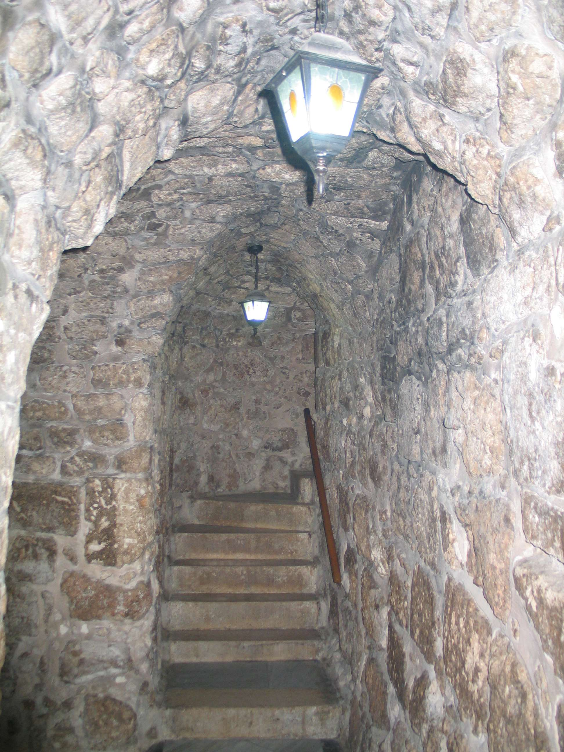 St George church in Lod, Israel.